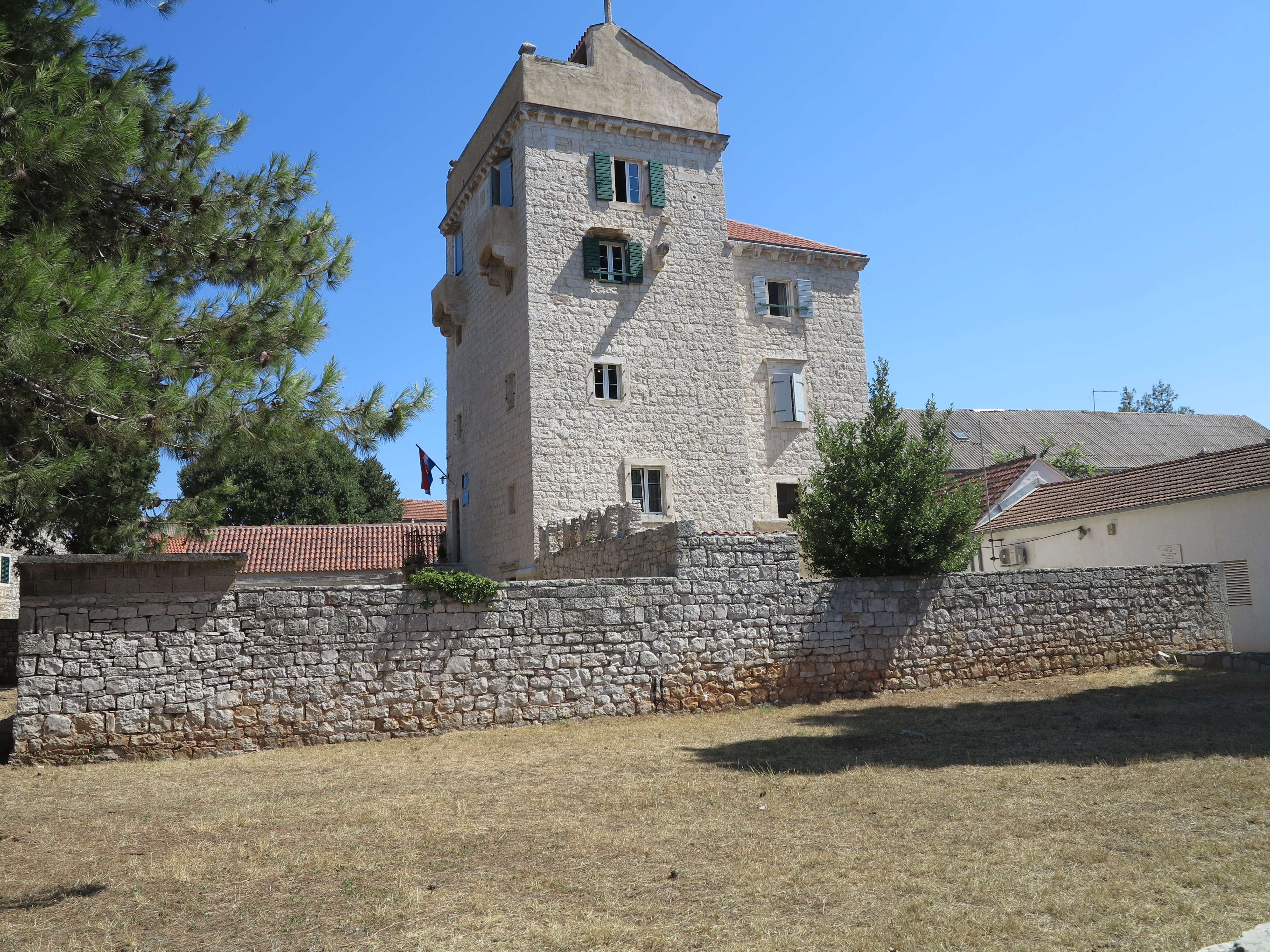 Town Hall, a limestone tower, in Grohote on the island Šolta / Croatia / Adriatic Sea. The tower provided protection from pirates and plunder.